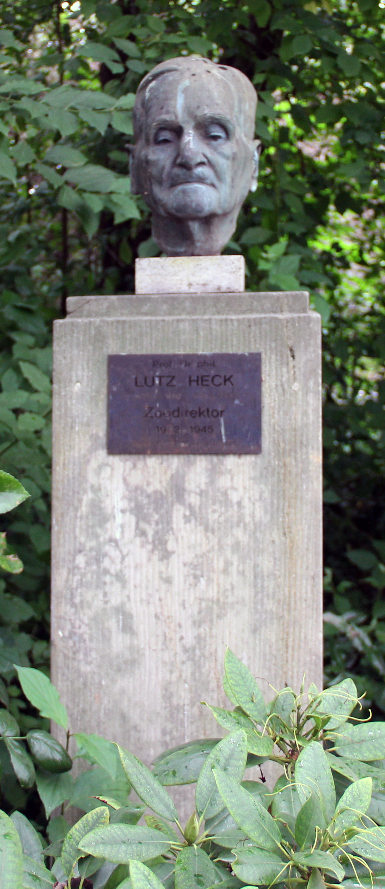 Bust, Lutz Heck, Hardenbergplatz 8, Berlin-Tiergarten, Germany